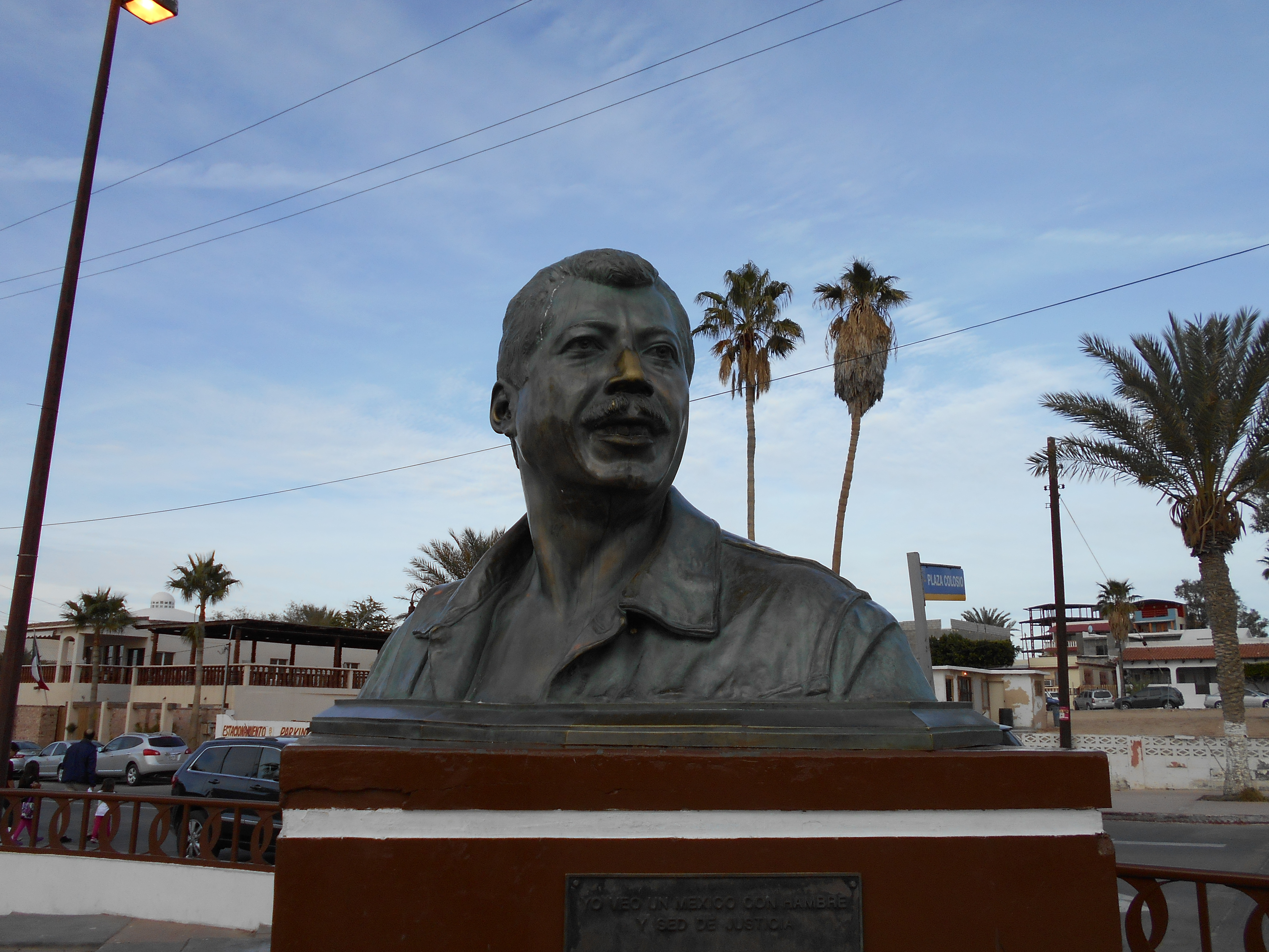 Memorial for Luis Donaldo Colosio in Puerto Peñasco Deitsch: Denkmal für Luis Donaldo Colosio in Puerto Peñasco